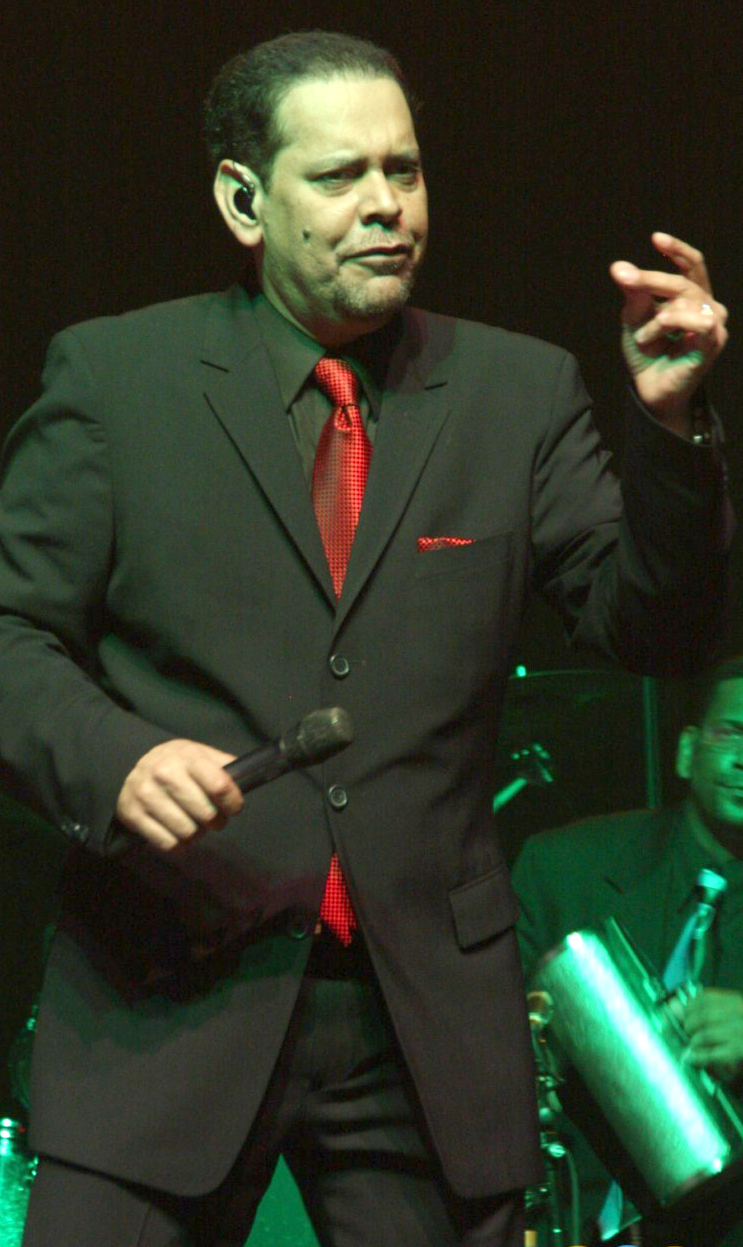 adjusted version of Image:Fernando_Villalona.jpg